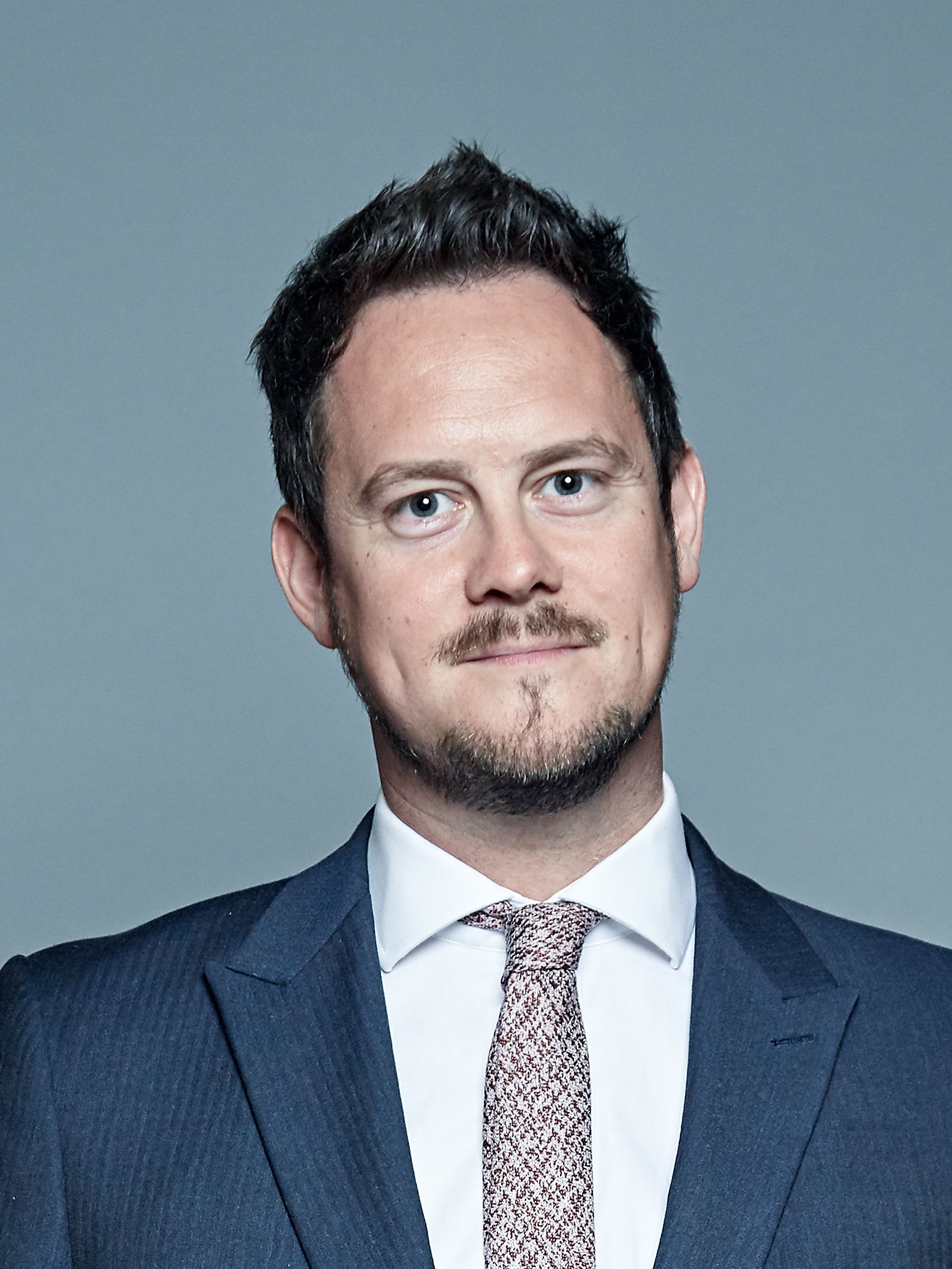 Close-up version of the official portrait of Stephen Morgan MP